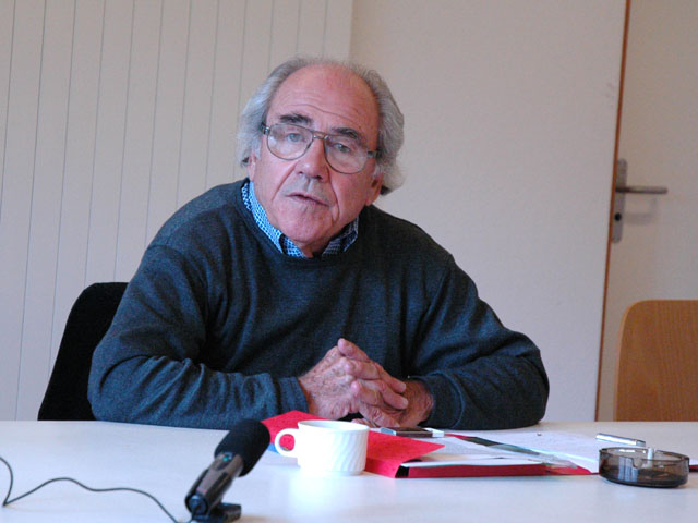 Jean Baudrillard lecturing at European Graduate School, Saas-Fee, Switzerland. (European Graduate School, June 12, 2004